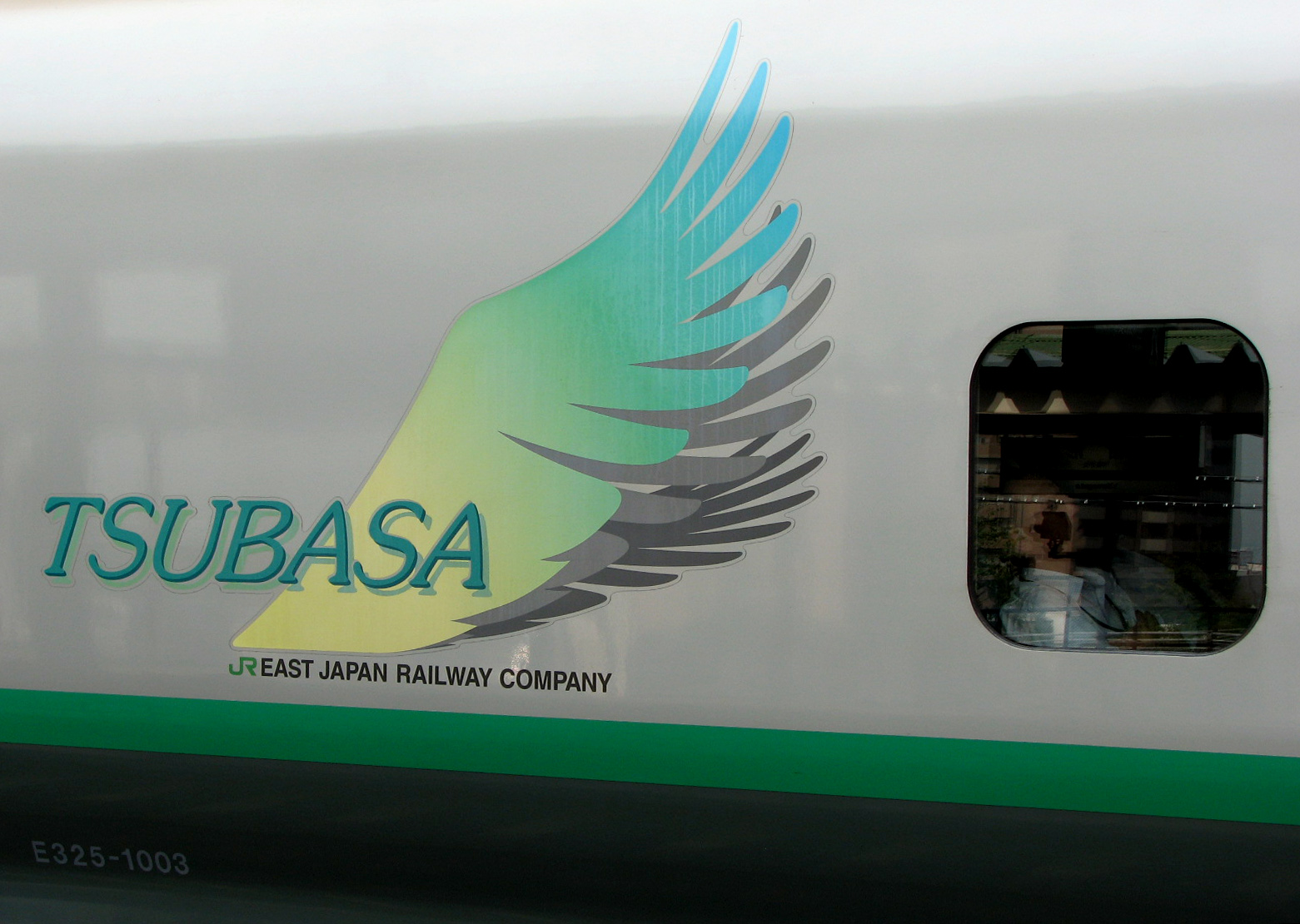 Body logo of Shinkansen E3 Series "Super Express Tsubasa"